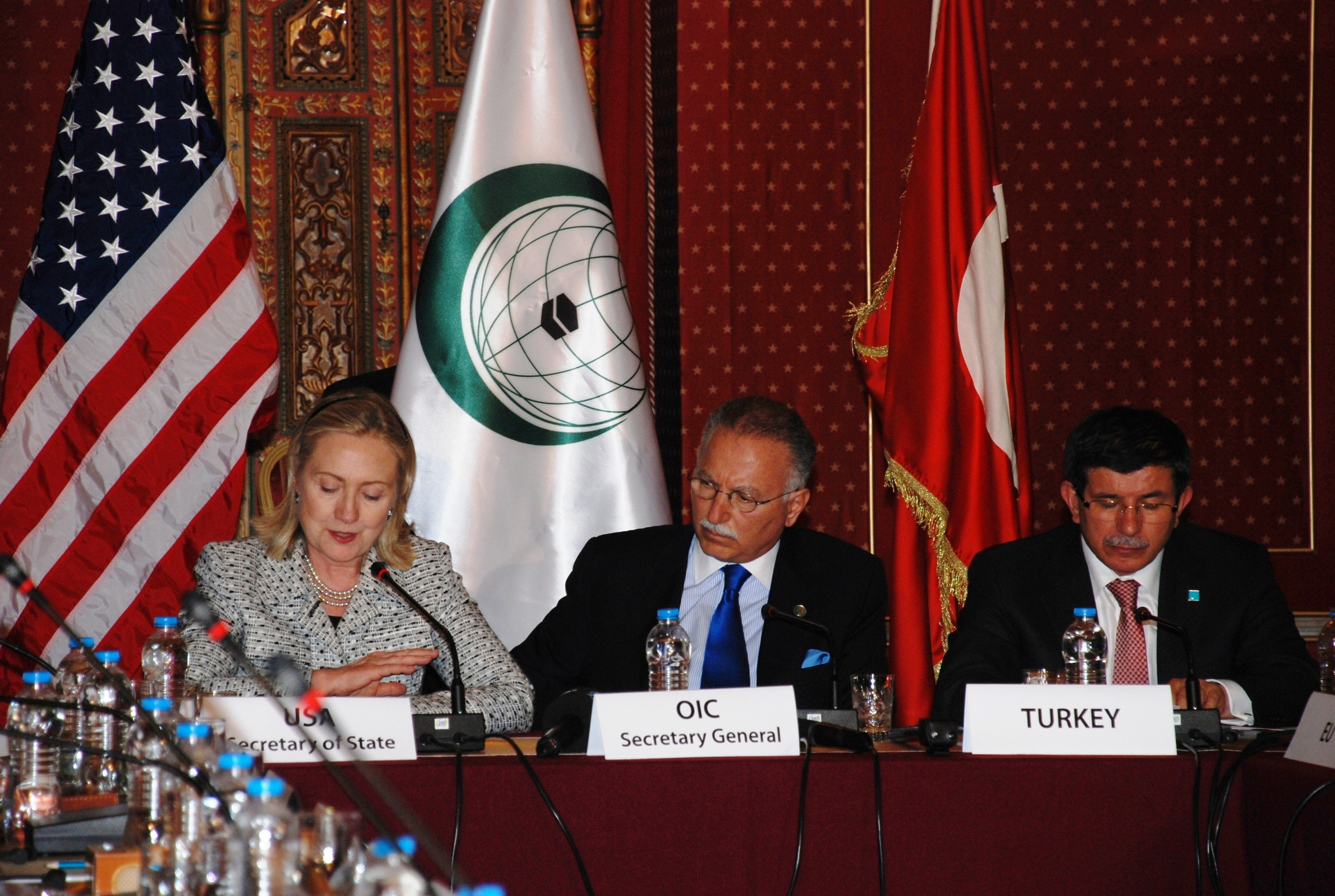 U.S. Secretary of State Hillary Rodham Clinton participates in the Organization of Islamic Cooperation (OIC) Conference on “Building on the Consensus” at the Research Center for Islamic History, Art and Culture (IRCICA) in Istanbul, Turkey, on July 15, 2011. [State Department photo/ Public Domain]